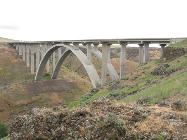 The Fred G. Redmon Bridge carries Interstate 82 and U.S. Route 97 over Selah Creek near the town of Selah, Washington.